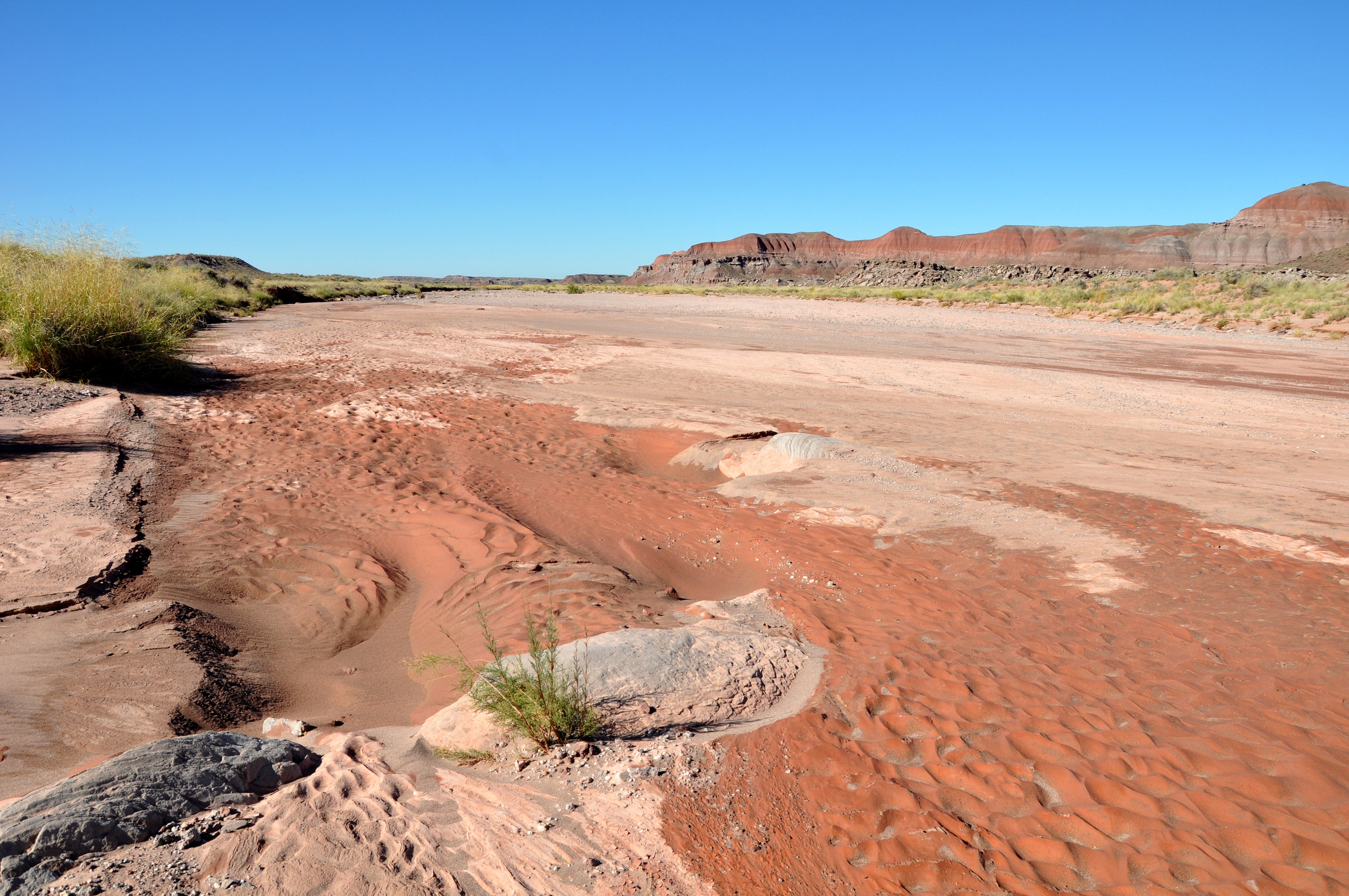 Lithodendron Wash in Petrified Forest National Park in northeastern Arizona, United States. View is downstream from north of Kachina Point.